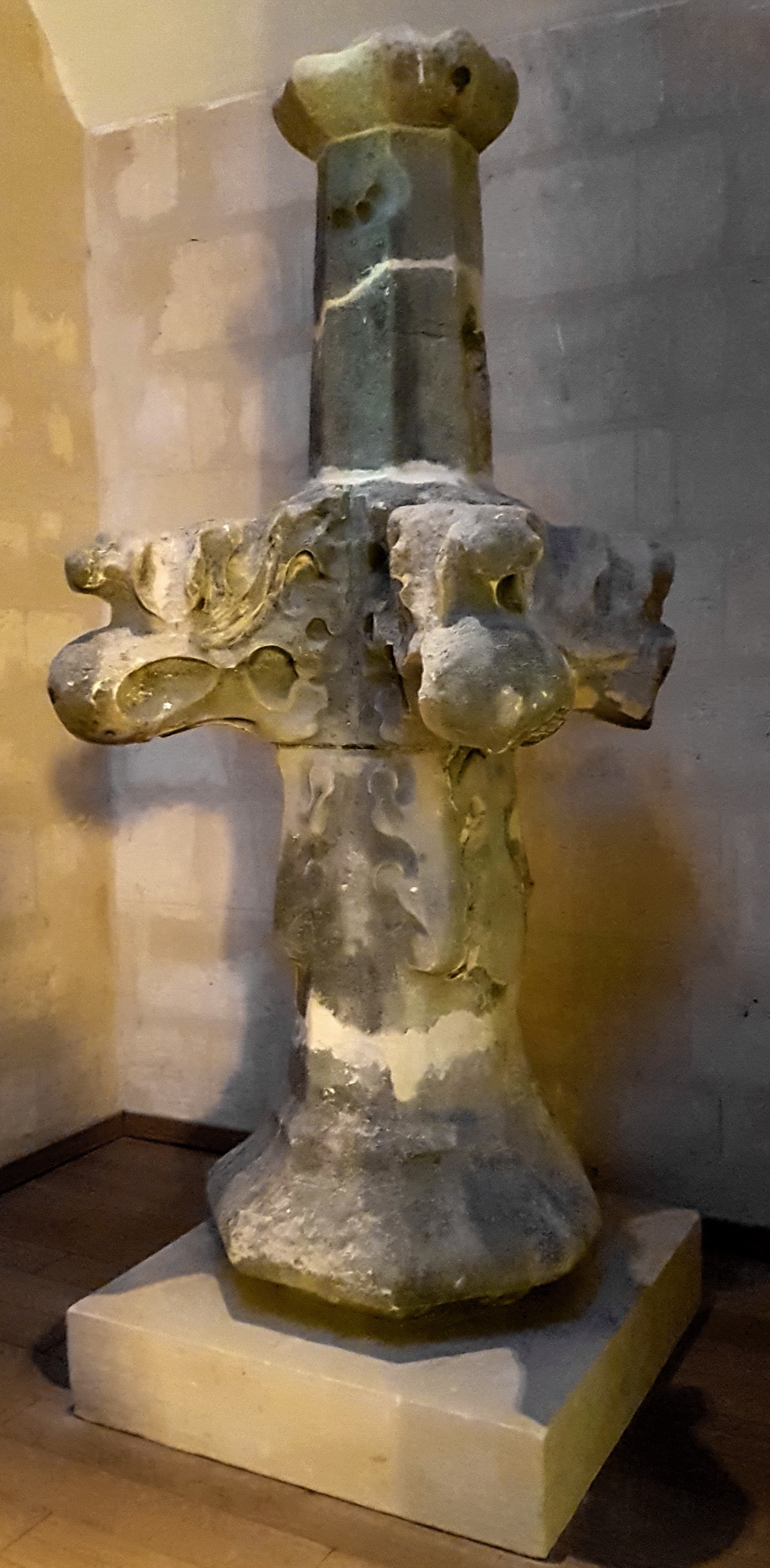 Pinnacle inside the cloisters of the Kruisherenklooster in Maastricht, the Netherlands. The Gothic Monastery of the Crutched Friars dates from the 15th century and in 2005 was converted into a luxury hotel, the Kruisherenhotel. The crocket or pinnacle once stood on the western edge of the church roof but was replaced during the 2000s restorations.